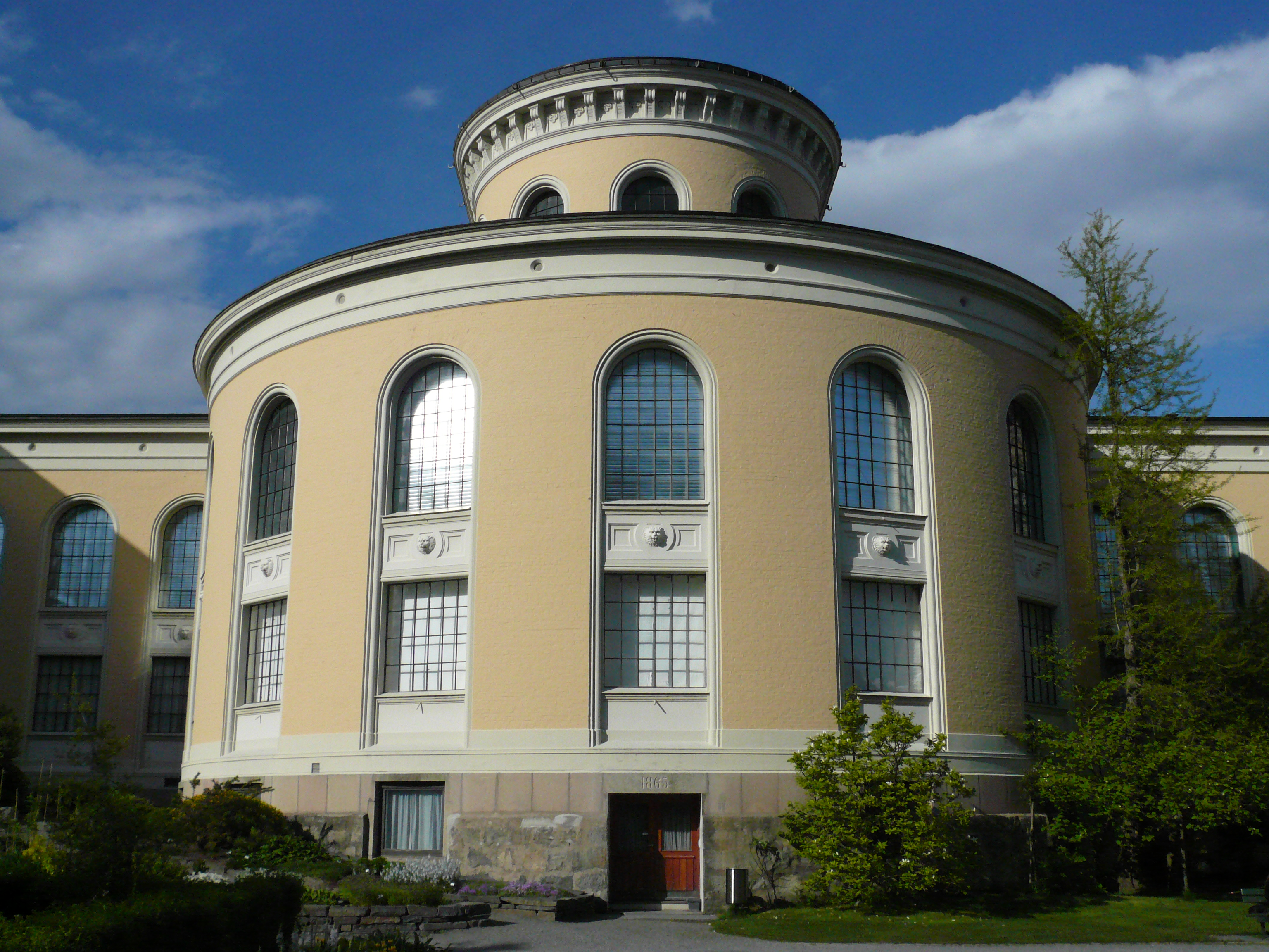 Bergen museum, 1865.